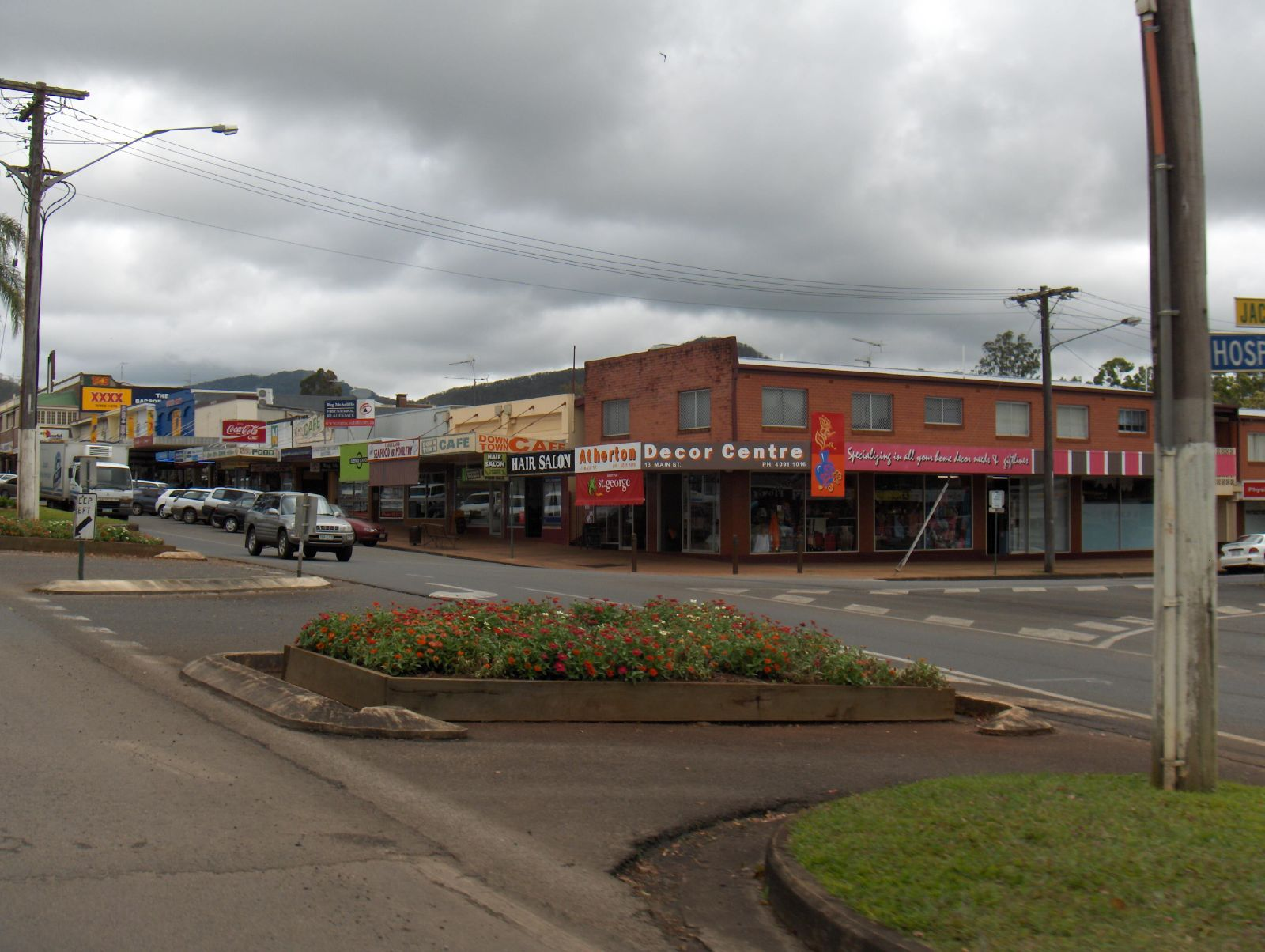 Atherton, Queensland, Australie; la grand rue